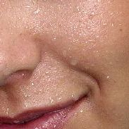 Drops of sweat